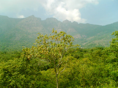 I have taken this photograph when I visited Shenbagathoppu along with my Weavers colony folks.